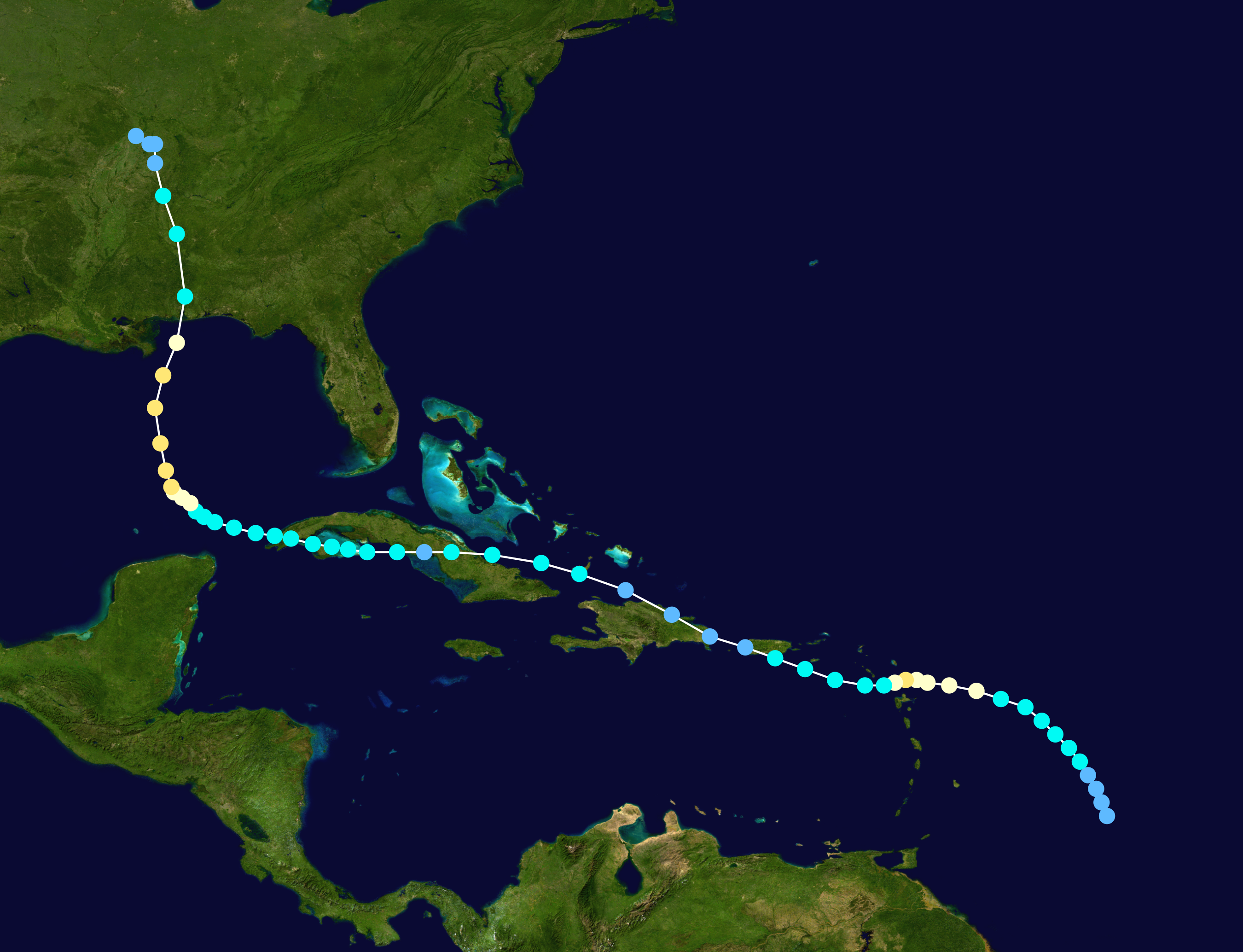 Track map of Hurricane Baker of the 1950 Atlantic hurricane season. The points show the location of the storm at 6-hour intervals. The colour represents the storm's maximum sustained wind speeds as classified in the Saffir–Simpson scale (see below), and the shape of the data points represent the nature of the storm, according to the legend below. Saffir–Simpson scale Tropical depression≤38 mph≤62 km/h Category 3111–129 mph178–208 km/h Tropical storm39–73 mph63–118 km/h Category 4130–156 mph209–251 km/h Category 174–95 mph119–153 km/h Category 5≥157 mph≥252 km/h Category 296–110 mph154–177 km/h Unknown Storm type Tropical cyclone Subtropical cyclone Extratropical cyclone / Remnant low / Tropical disturbance